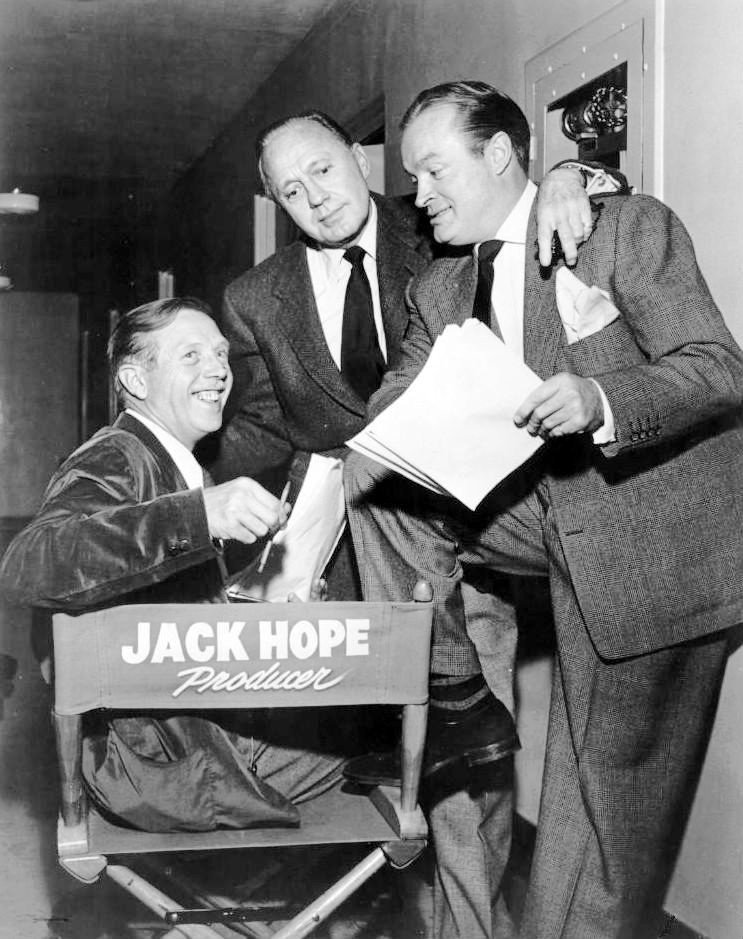 Photo of Jack Hope, Jack Benny and Bob Hope, Jack Hope, who was Bob's brother, was also the producer of his television programs.